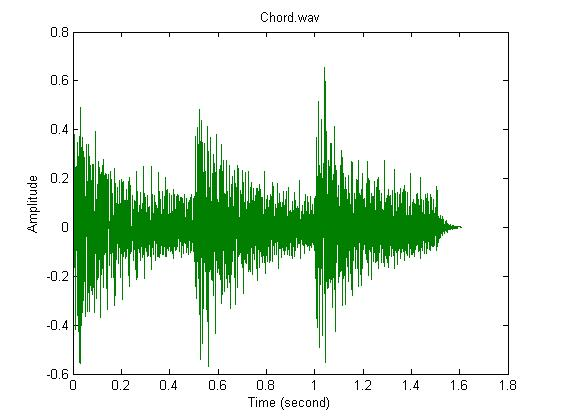 waveform of an music chord audio